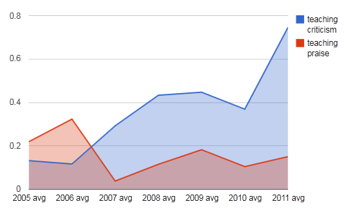 From analysis of talk page messages during the June 3rd Wikipedia Summer of Research mini-sprint.